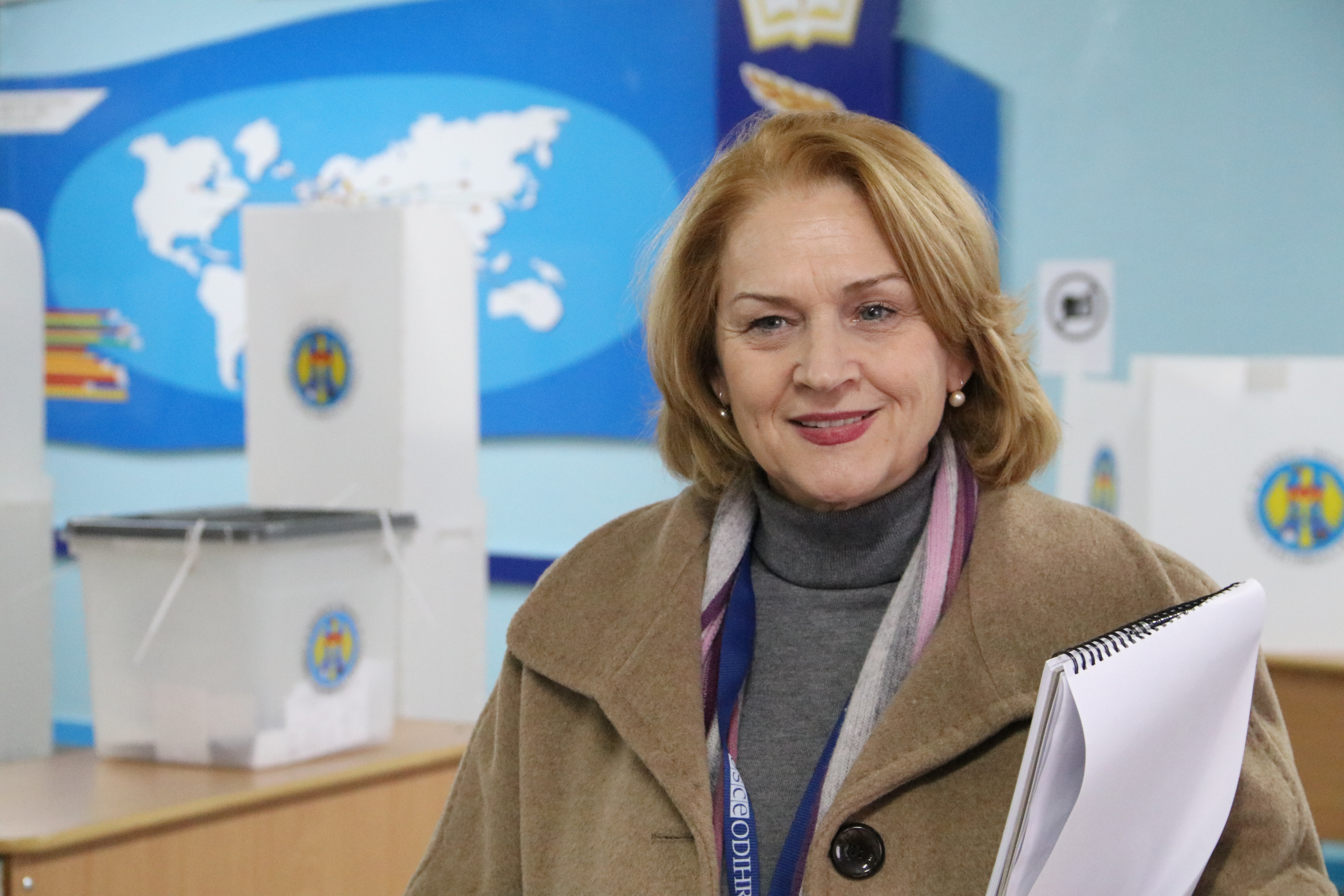 Special Co-ordinator Arta Dade (Albania), Chisinau, 13 November 2016